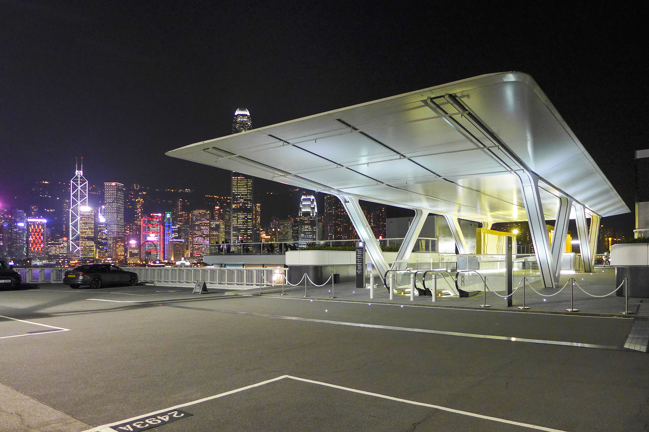 Ocean Terminal Extension Level 4 Drop off area